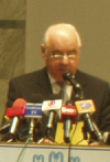 President Alfred Moisiu, Tirana 2003. Photo: Bjørn Andersen